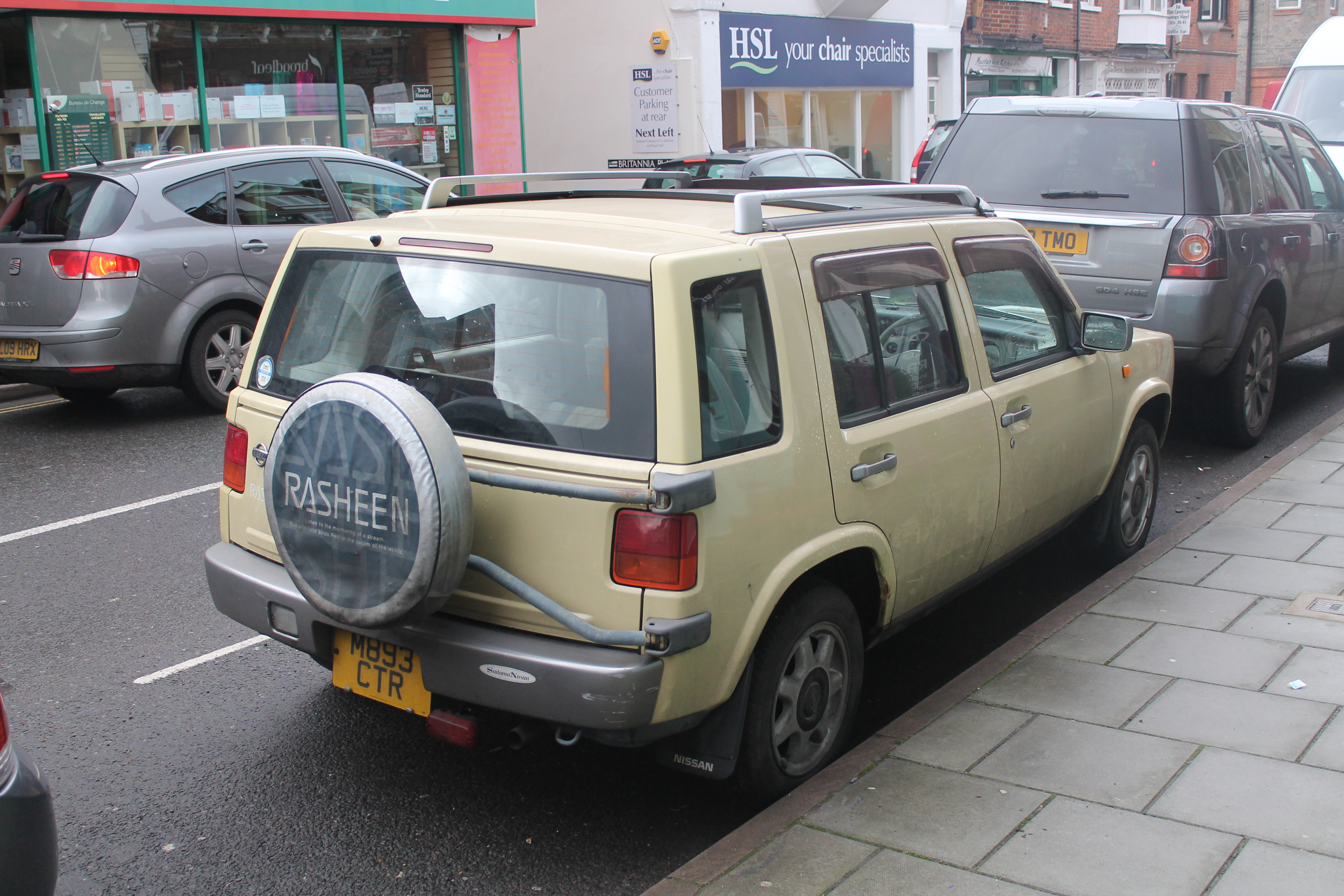 Very strange cars indeed, this is a slightly obscure import, presumably from Japan. These are deceptively small, look at it next to the Freelander! They are 4x4 I believe. This one came to the UK fairly young, in 1996. Looks like it was sold at Saitama Nissan originally, judging by the sticker. The vehicle details for M893 CTR are: Date of Liability 01 07 2015 Date of First Registration 12 10 1996 Year of Manufacture 1995 Cylinder Capacity (cc) 1500cc CO₂ Emissions 0 g/km Fuel Type PETROL Export Marker N Vehicle Status Licence Not Due Vehicle Colour YELLOW Vehicle Type Approval Not Available